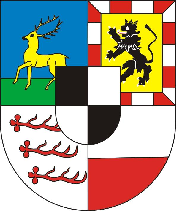 coat of arms